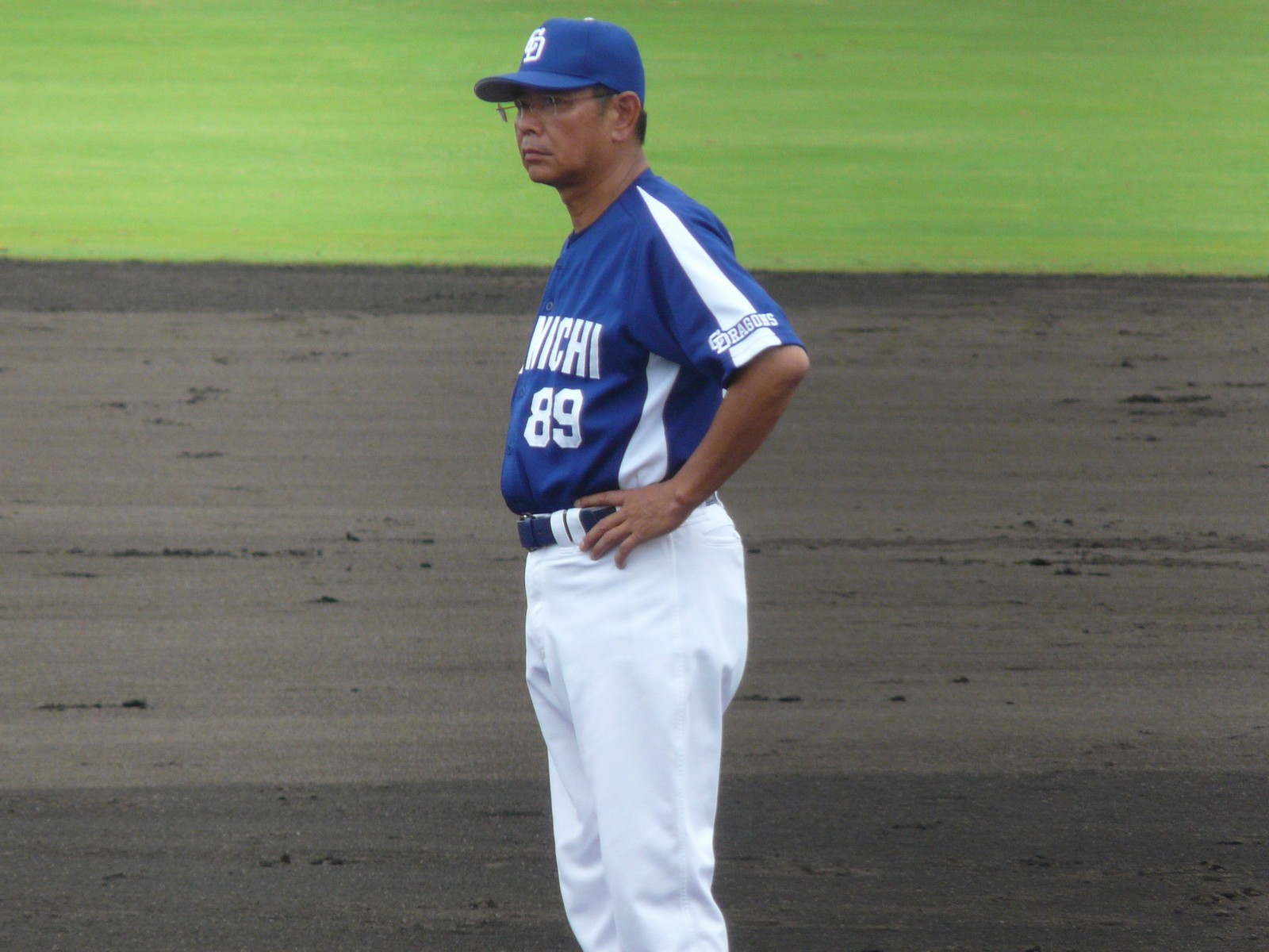 Copied from 画像:CD-Michitake-Takahashi.jpg: "高橋三千丈"